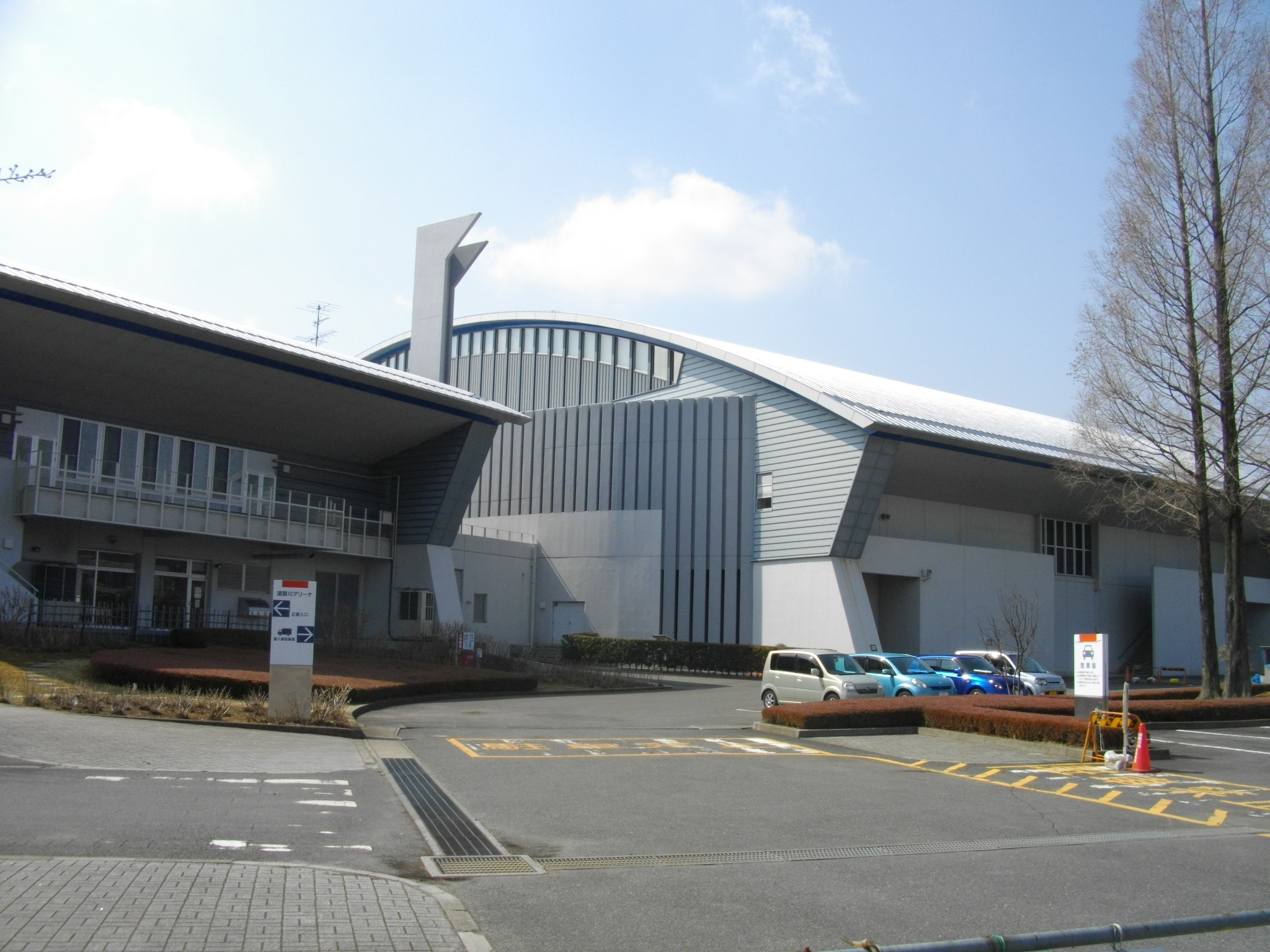 Sukagawa Arena